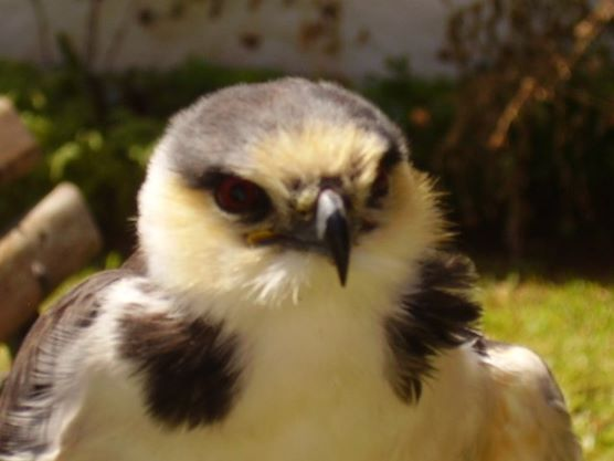 Fotografia del Milano chico o Gampsonyx swainsonii en el patio de mi casa en Asuncion Paraguay.